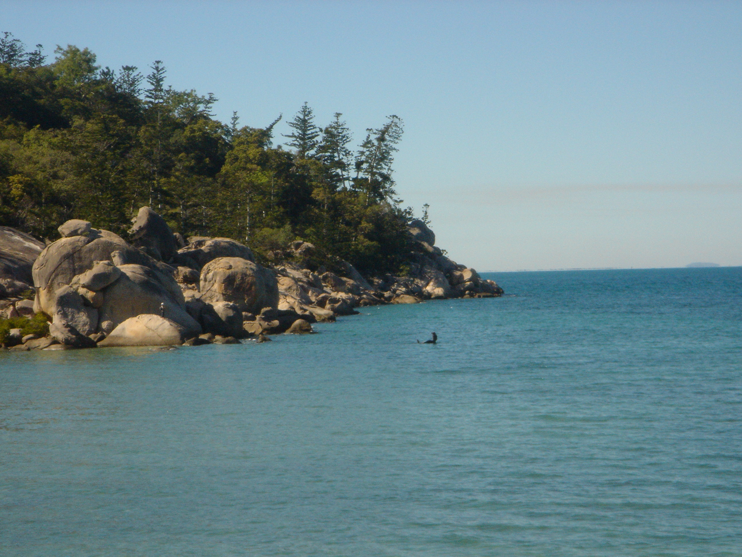 George Rennie shipwreck